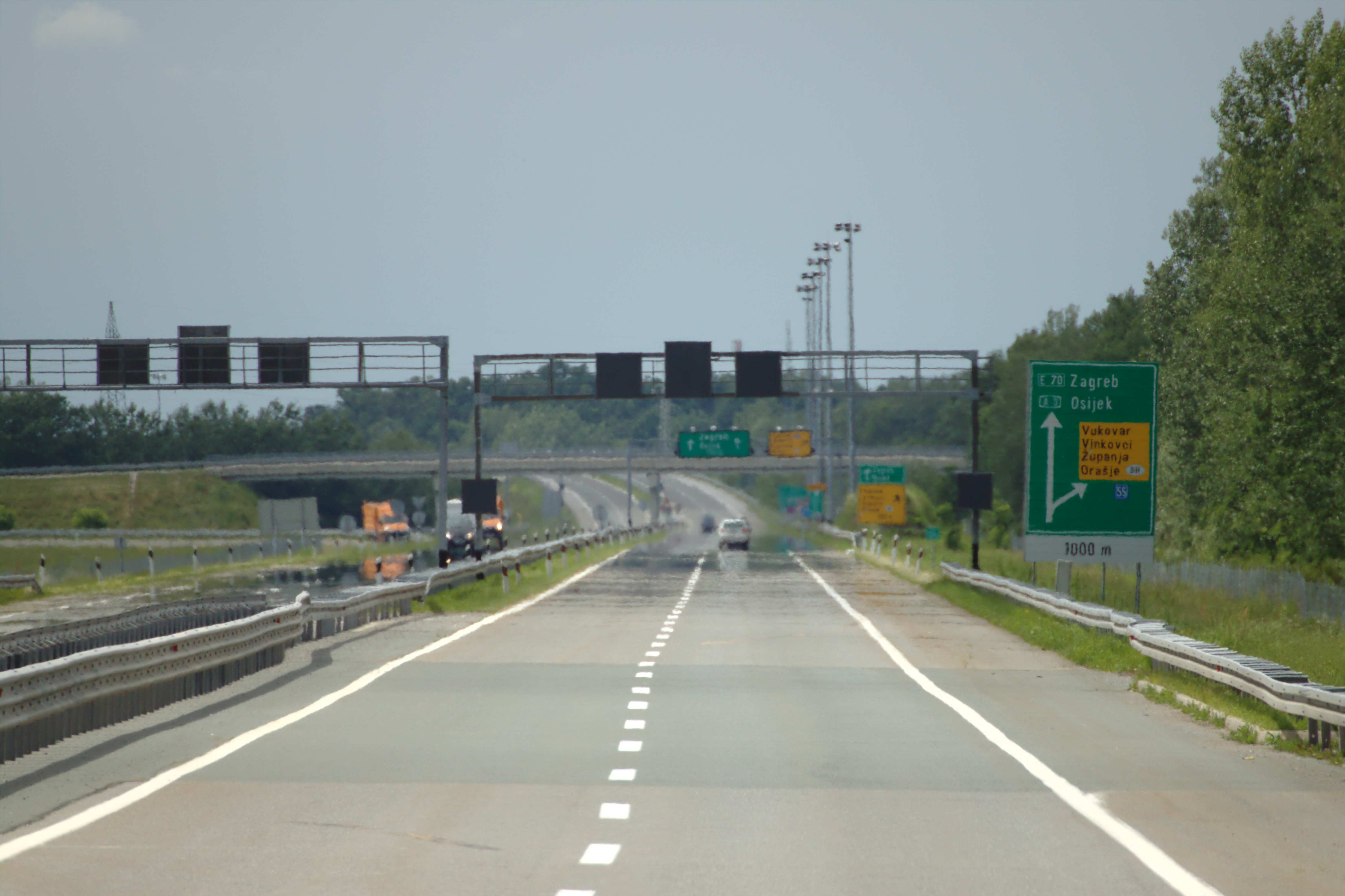 Zagreb-Lipovac Highway, Croatia